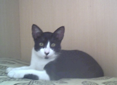 Cat Photo of a Cat taken by user Xadai and licensed under the GFDL